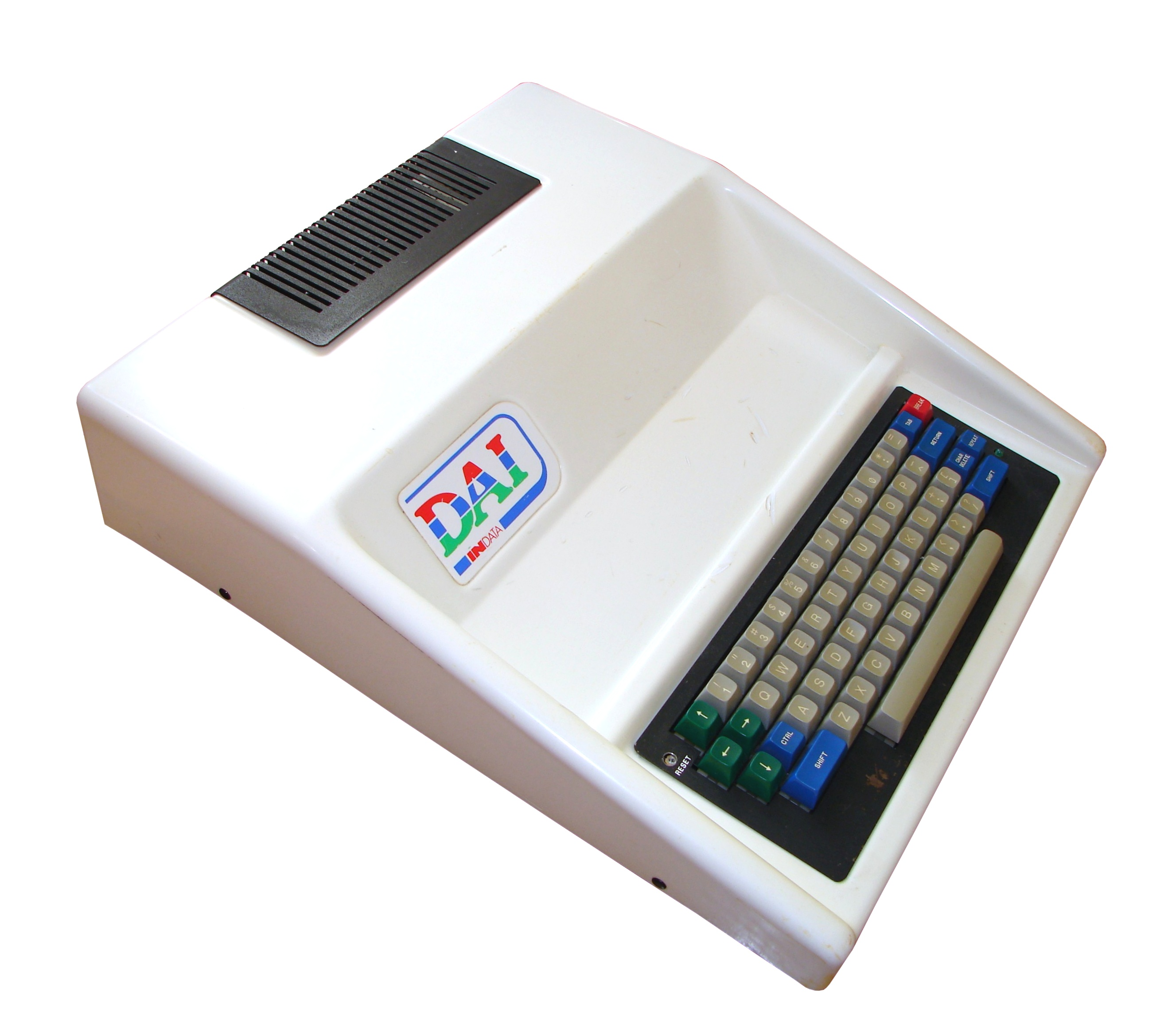 InData DAI computer (left angle view). Later model manufactured by InData.